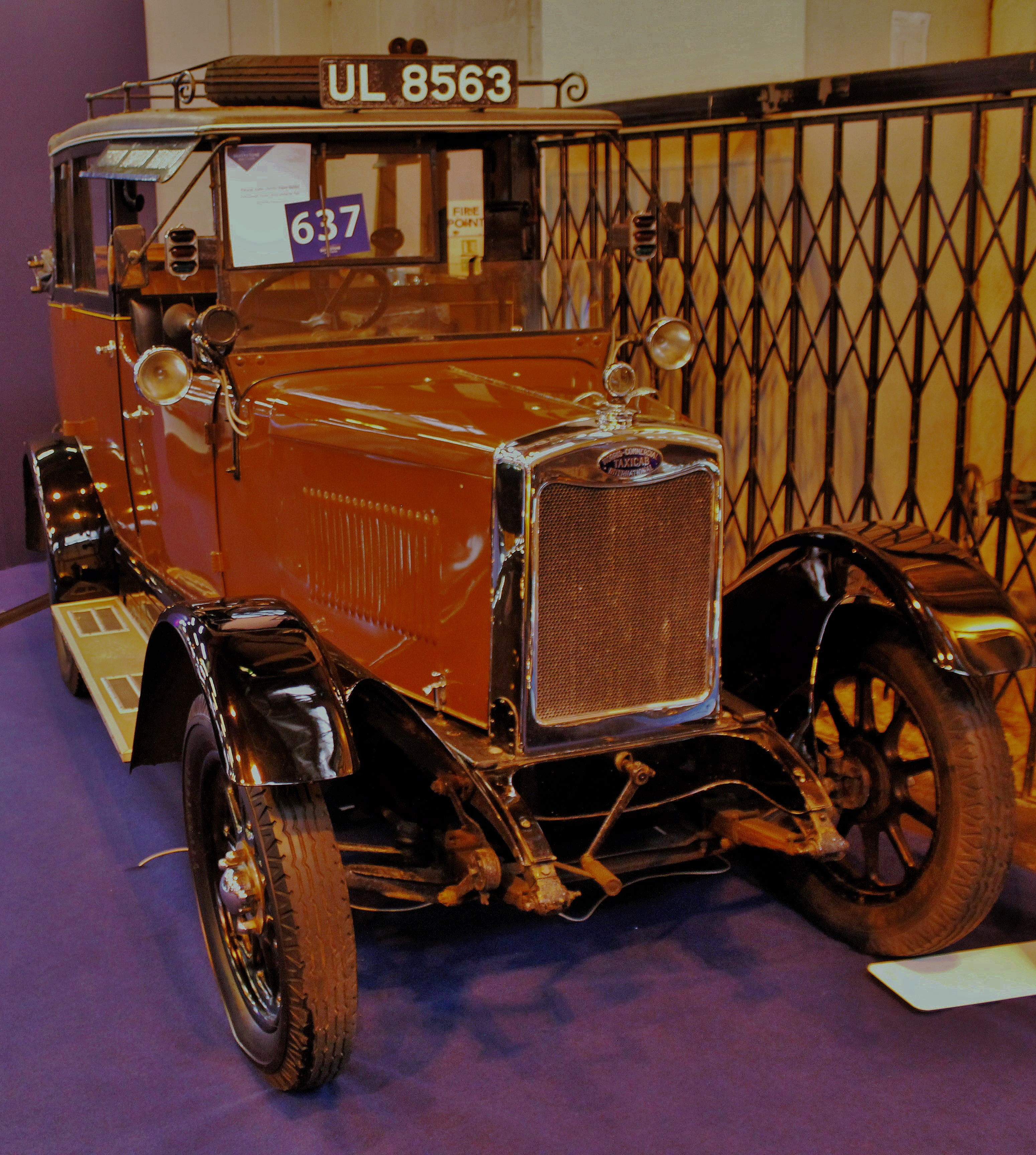 1929 Morris-Commercial Taxicab Chassis 060G Engine 14909G 2513 cc Source of infoNEC Classic car show 2015